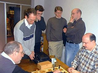 Mikhail Gurevich and Gabor Kallai are analyzing their game, 24. February at Porz, Photographer Gerhard Hund.